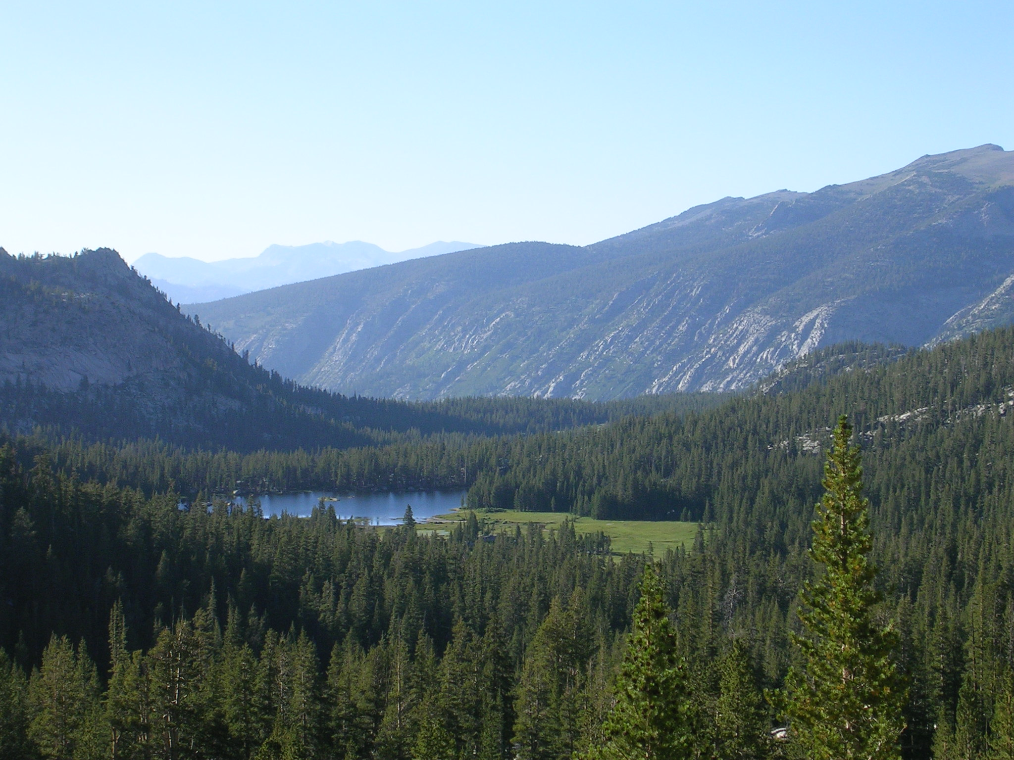 Grassy Lake, in the John Muir Wilderness of California. Seen from the south, near Wilbur May Lake. The canyon wall cutting across the background from center to right is the northeast wall of Cascade Valley.